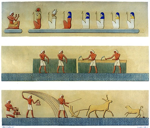 Book of the Dead, spell 110: Fields of Iaru. Scene from tomb of Ramses III. (KV11)